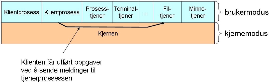 Diagram of a client-server operating system architecture. Norwegian captions.